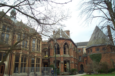 Oxford Union, 2004-02-28. Copyright © Kaihsu Tai. Category:Images of Oxford